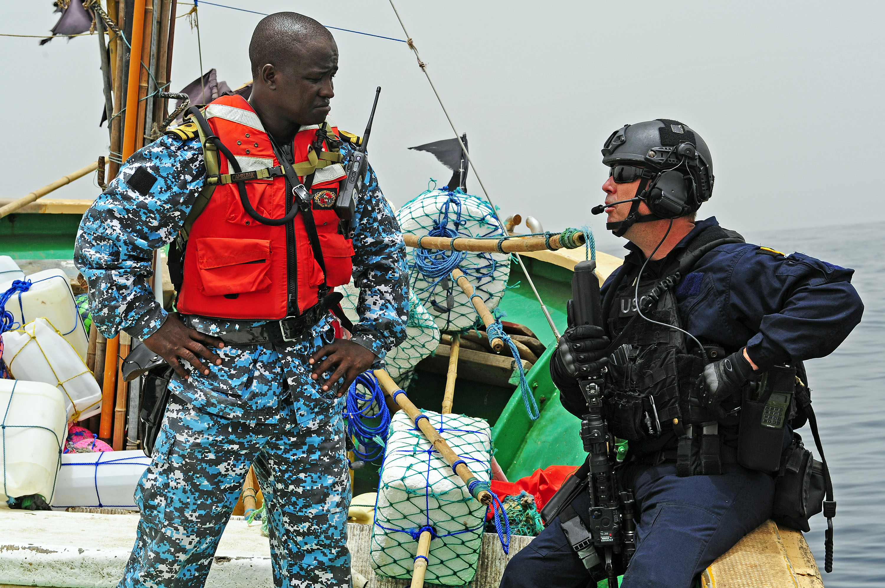 U.S. Coast Guard Chief Maritime Enforcement Specialist Rob Wills, right, with the Maritime Security Response Team, and Gambian Navy Lt. Simon Peter Mendy discuss tactical operations while aboard a fishing vessel in Gambia's exclusive economic zone in the Atlantic Ocean June 19, 2012, in support of African Maritime Law Enforcement Partnership operations, a part of Africa Partnership Station (APS) 2012. APS is an international security cooperation initiative facilitated by Commander, U.S. Naval Forces Europe-Africa aimed at strengthening global maritime partnerships through training and collaborative activities in order to improve maritime safety and security in Africa.